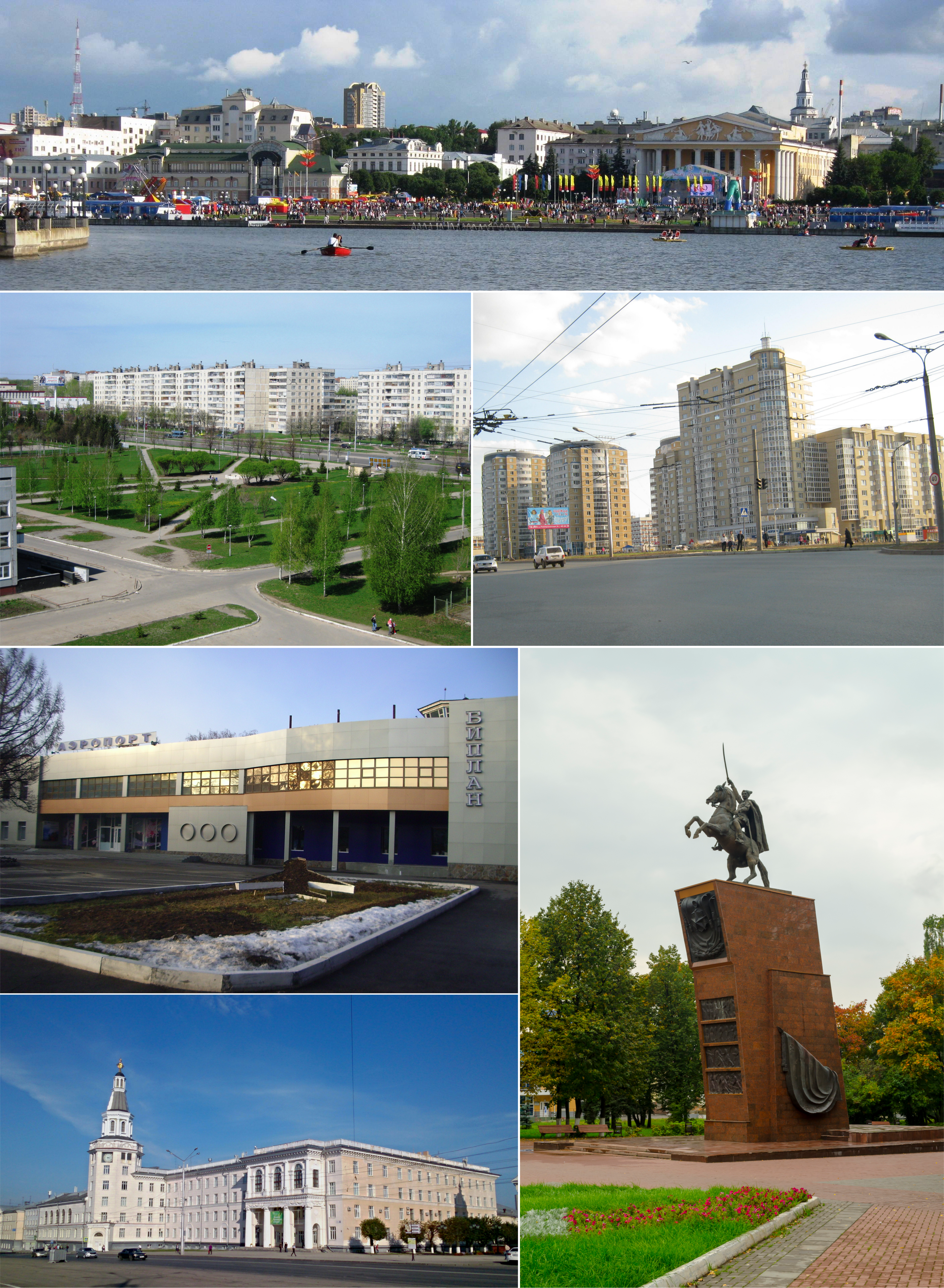 Photos of Cheboksary, Chuvashia. Left to right, top to bottom: Red Square on Chuvashia Day; Hospital Square, Universitetskaya St.; Cheboksary Airport, Chapayev Monument; Agricultural Academy.